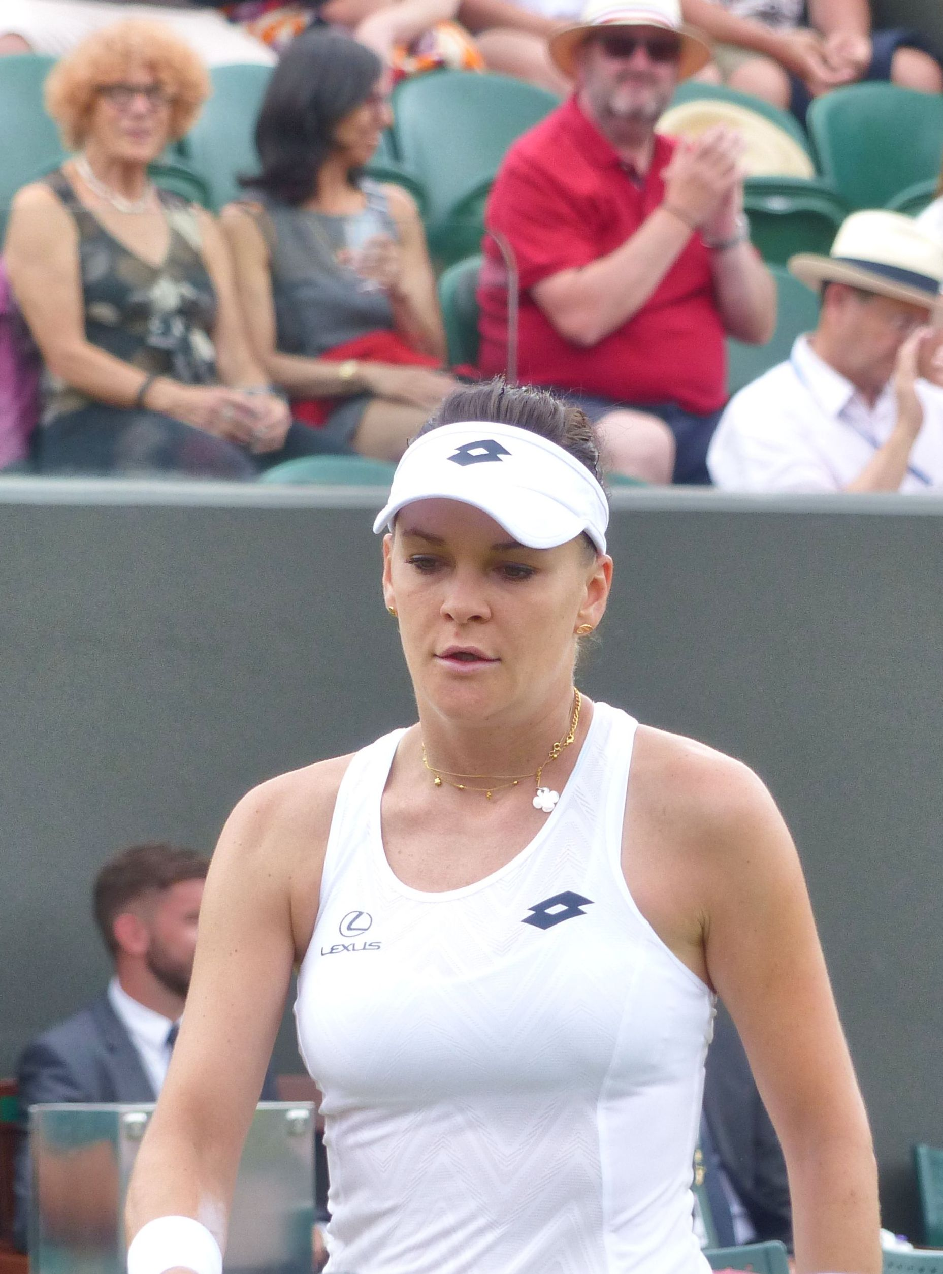 Agnieszka Radwańska playing at Wimbledon 2018